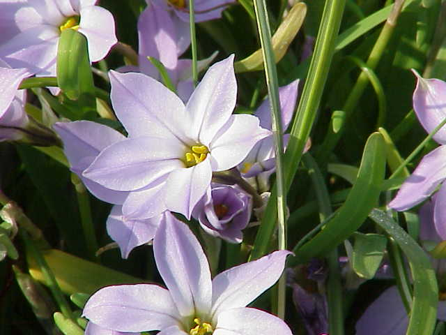 Species: Ipheion uniflorum Family: Alliaceae Image No. 3